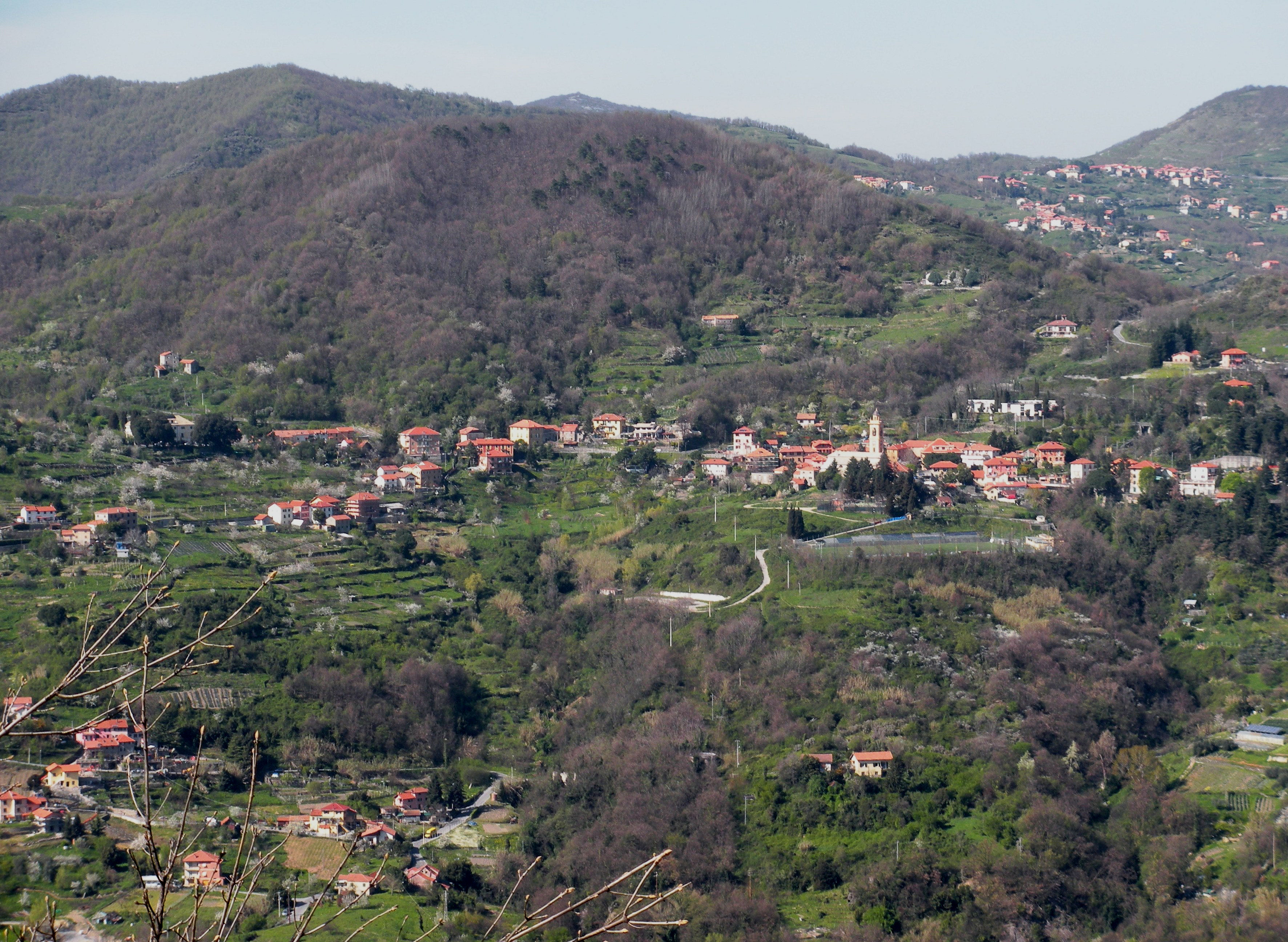 View of Sant'Olcese (province of Genoa, Italy)